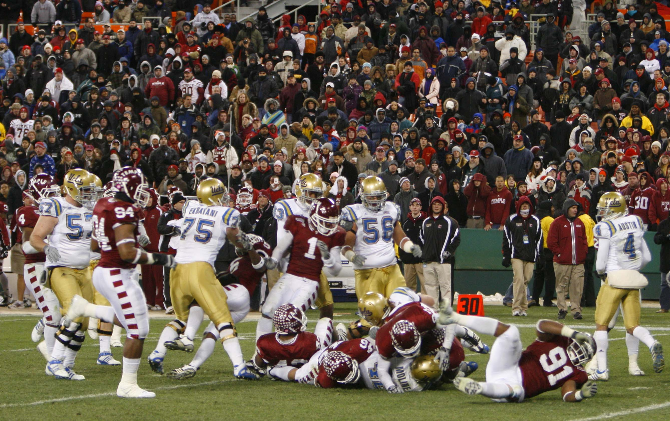 The 2009 EagleBank Bowl, a college football bowl game between the Temple Owls and UCLA Bruins, played at Robert F. Kennedy Memorial Stadium in Washington, D.C., on December 29, 2009.